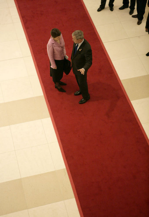 New Zealand Prime Minister Helen Clark and United States of America President George W. Bush meet formally at the White House.